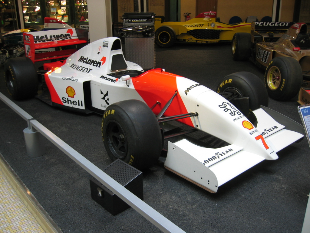 McLaren MP4/9 Peugeot 1994